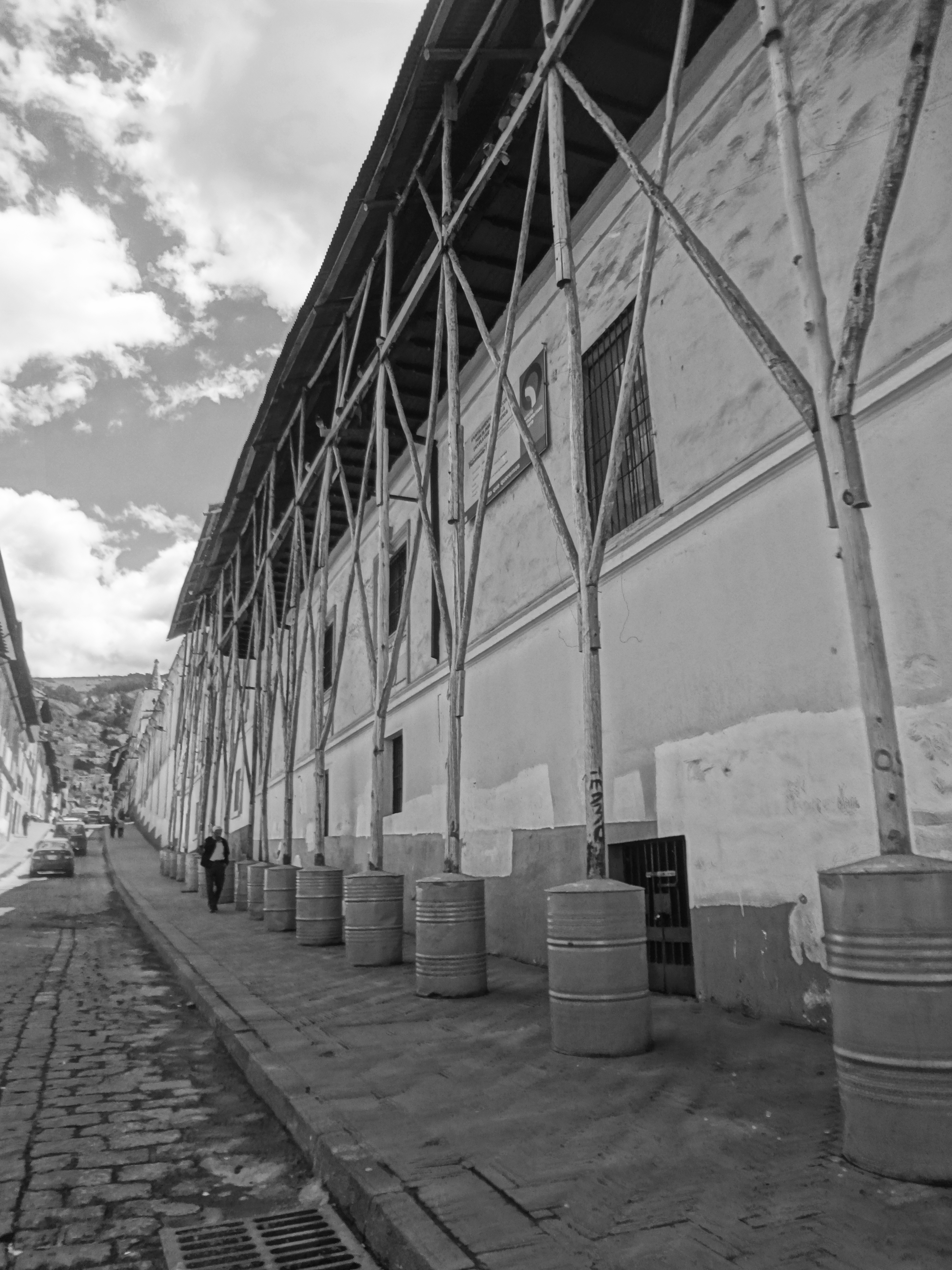 Historic renovations in the Historic Center of Quito - World Heritage Site by UNESCO